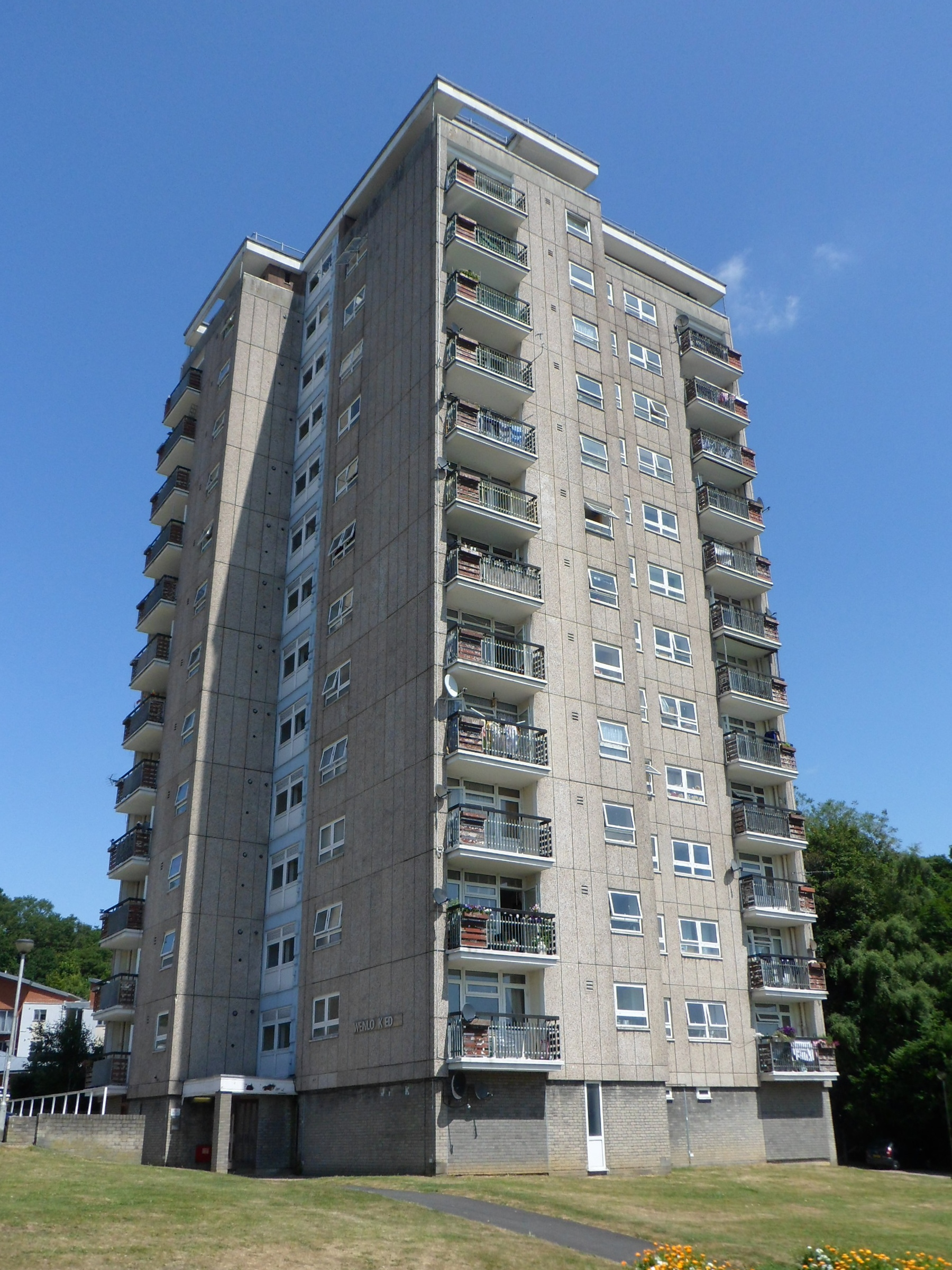 Wenlock Edge, one of two 14-storey tower blocks on the Goodwyns Estate in the south of Dorking, Surrey, England. The other is Linden Lea. Both were built in 1965 to the design of William Ryder & Associates.